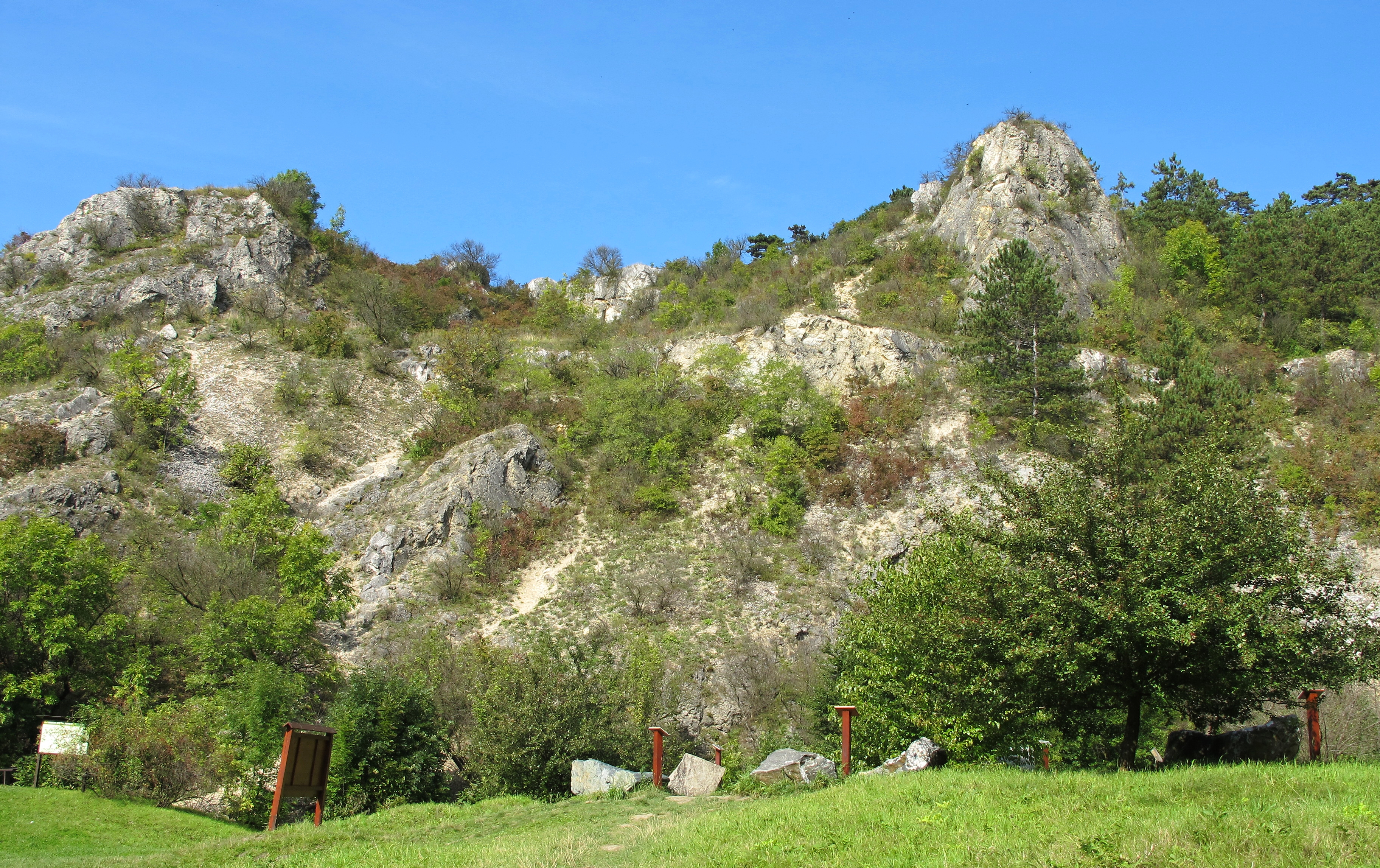 Nature reserve Turold, former limestone quarry - there are a geopark and entrace to the Turold Caves